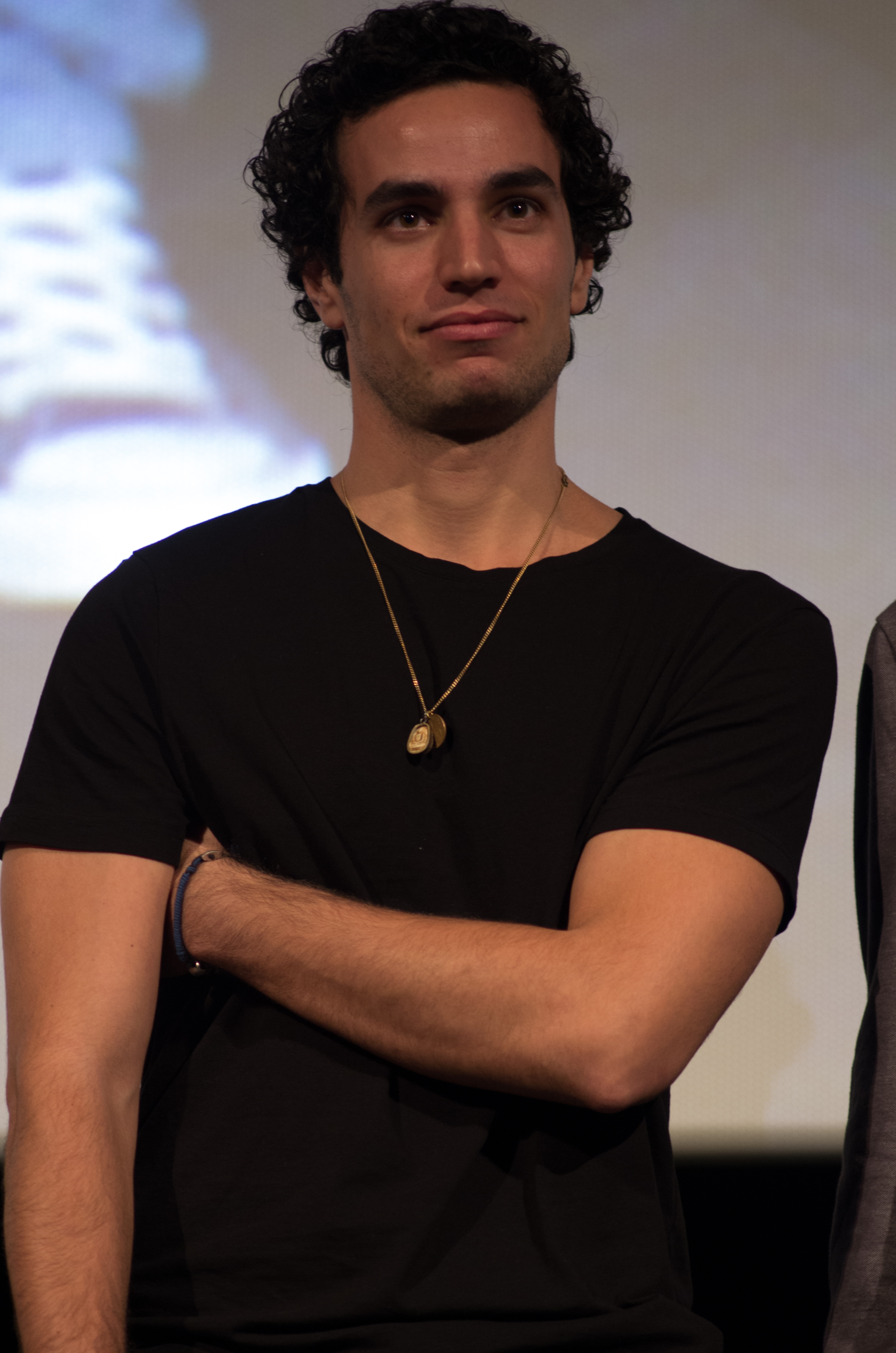 Actor Adam Bakri at the TIFF 2013, Bloor Hot Docs Theatre. Q&A Session following the screening of Omar.